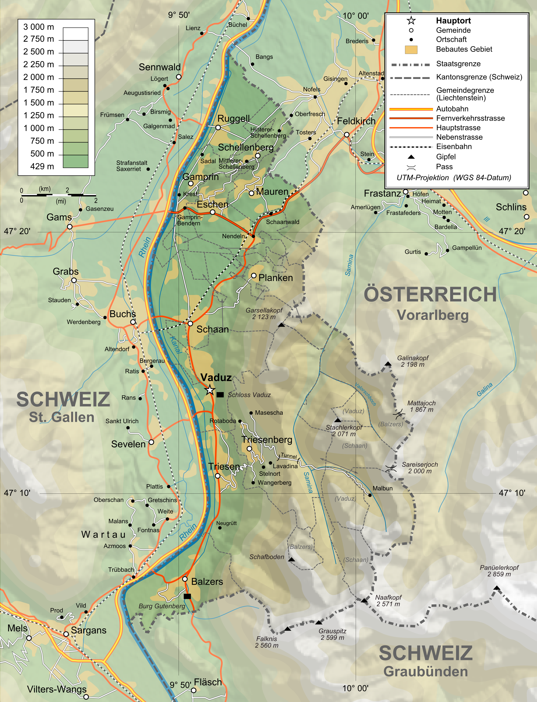 Topographic map in German of Liechtenstein